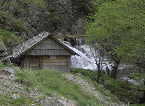 watermill near Rudăria village, Caraş-Severin County, Romania